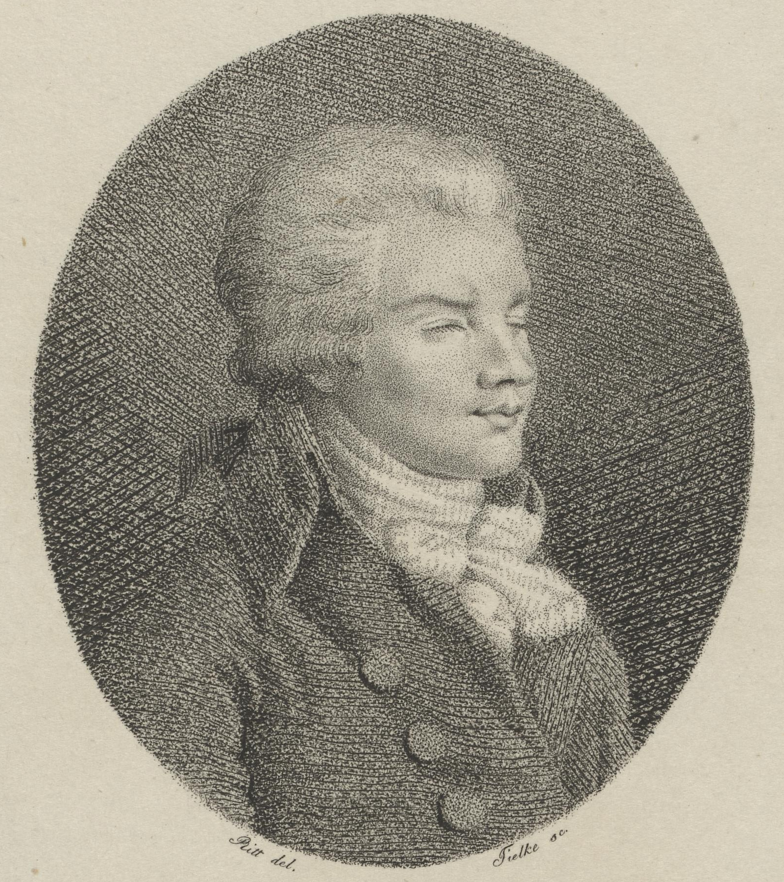 Friedrich Ludwig Dulon (1769-1826), german flutist and composer